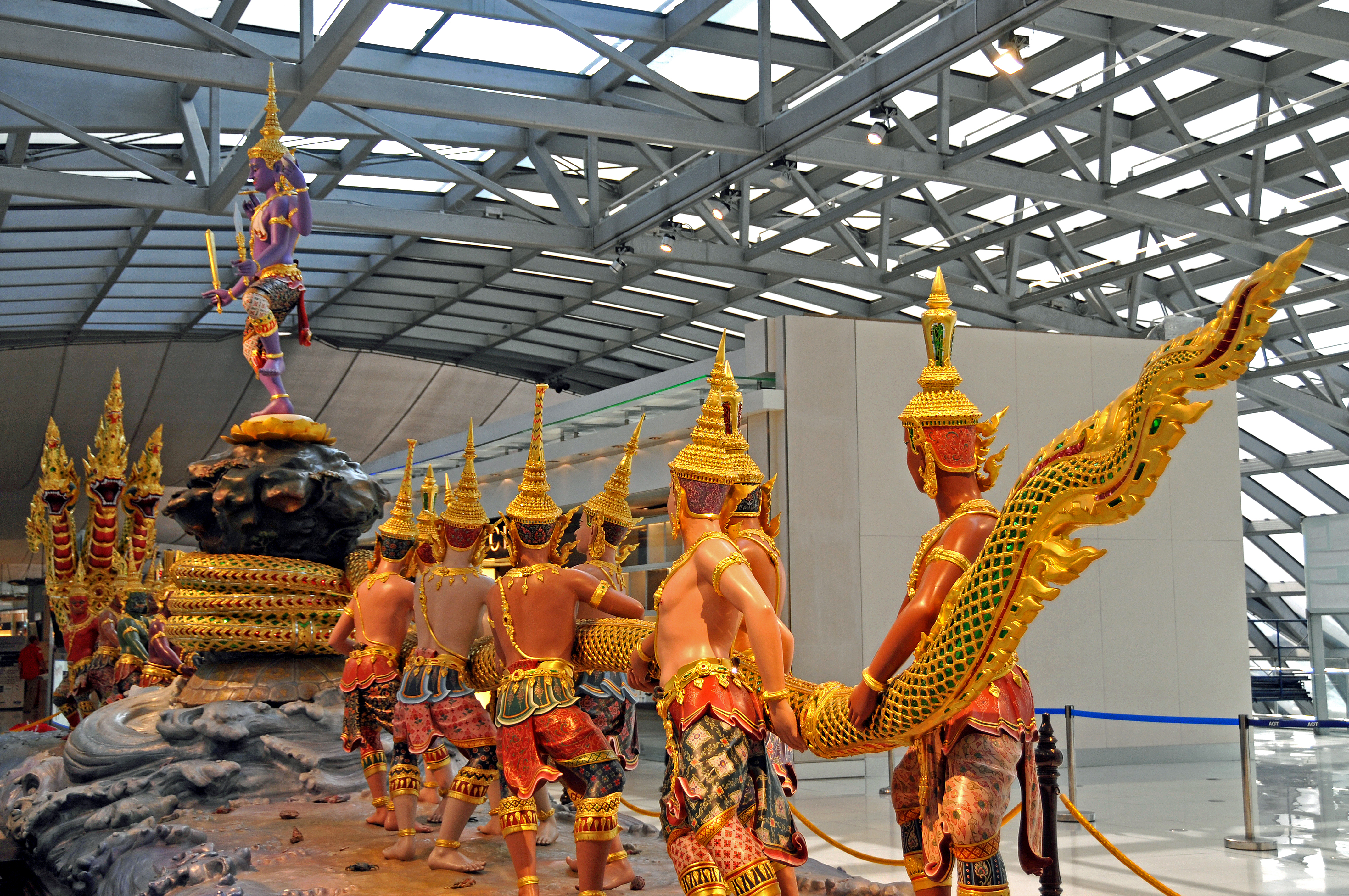 PLEASE, no multi invitations (none is better) in your comments. Thanks. Bangkok Airport The churning of the Ocean of Milk was an elaborate process. Mount Mandaranchal was used as the churning tool, and Vasuki, the king of serpents, became the churning rope. On the right side, 'devas' (guardian gods) pull the tail of the snake while on the left side 'asuras' (demon gods) pull the snake's head in the opposite direction. They pulled on it alternately causing the mountain to rotate, which in turn churned the ocean. By alternating back and forth, the ocean was "milked", forming the earth and the cosmos anew.